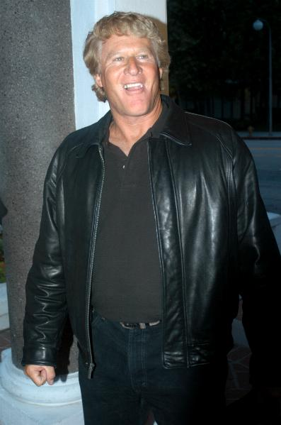 Randy West, taken at the XRCO Awards, June 2, 2005